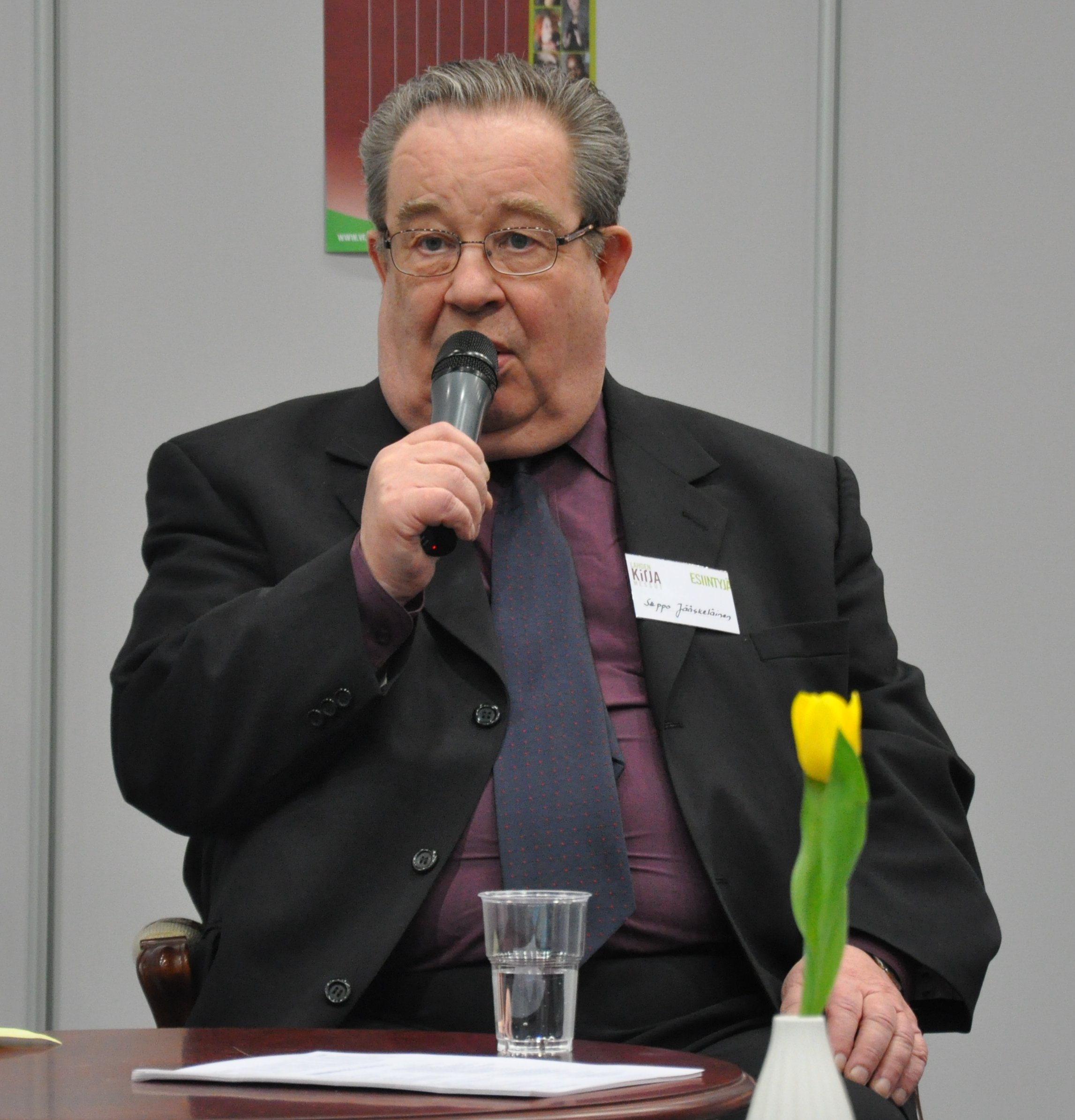 Finnish writer Seppo Jääskeläinen speaking at the Lahti Book Fair 2009.